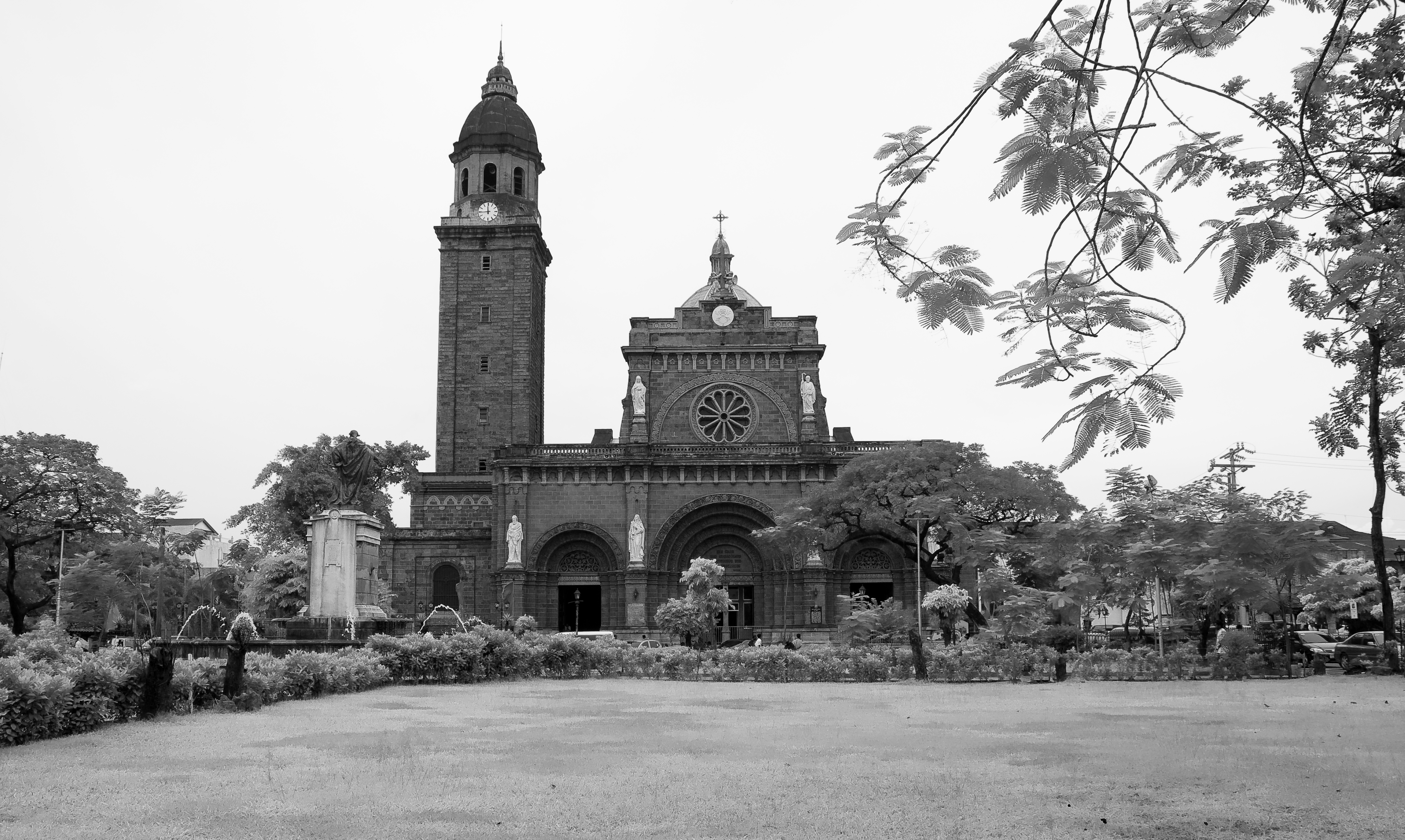 Manila Cathedral - located at Plaza de Roma, Intramuros